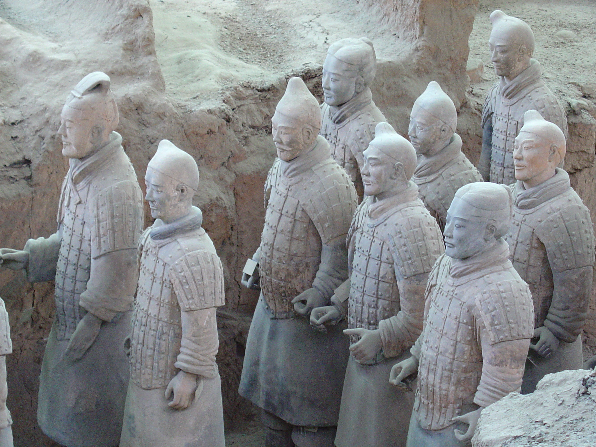 just a few of the thousands of terracotta Army soldiers of the first Emperor of China - Emperor Qin